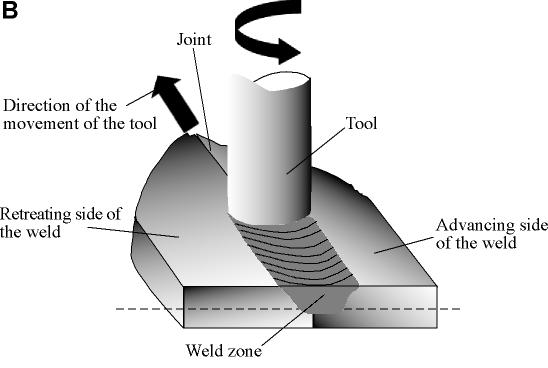 Image depicts the friction stir welding process